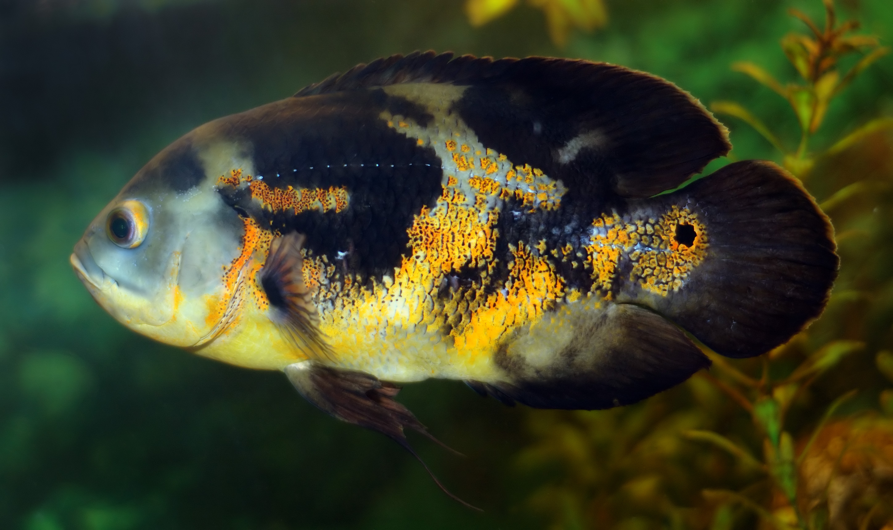 This image shows a Oscar (Astronotus ocellatus).